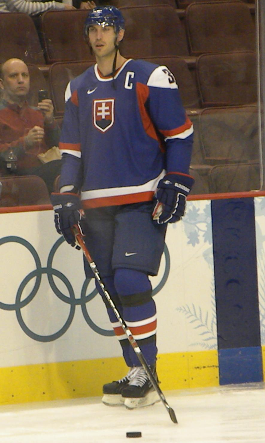 Zdeno Chara of the Slovakia men's national ice hockey team, warming up before a match against the Czech Republic men's national ice hockey team in the 2010 Winter Olympics at Canada Hockey Place on February 17, 2010.